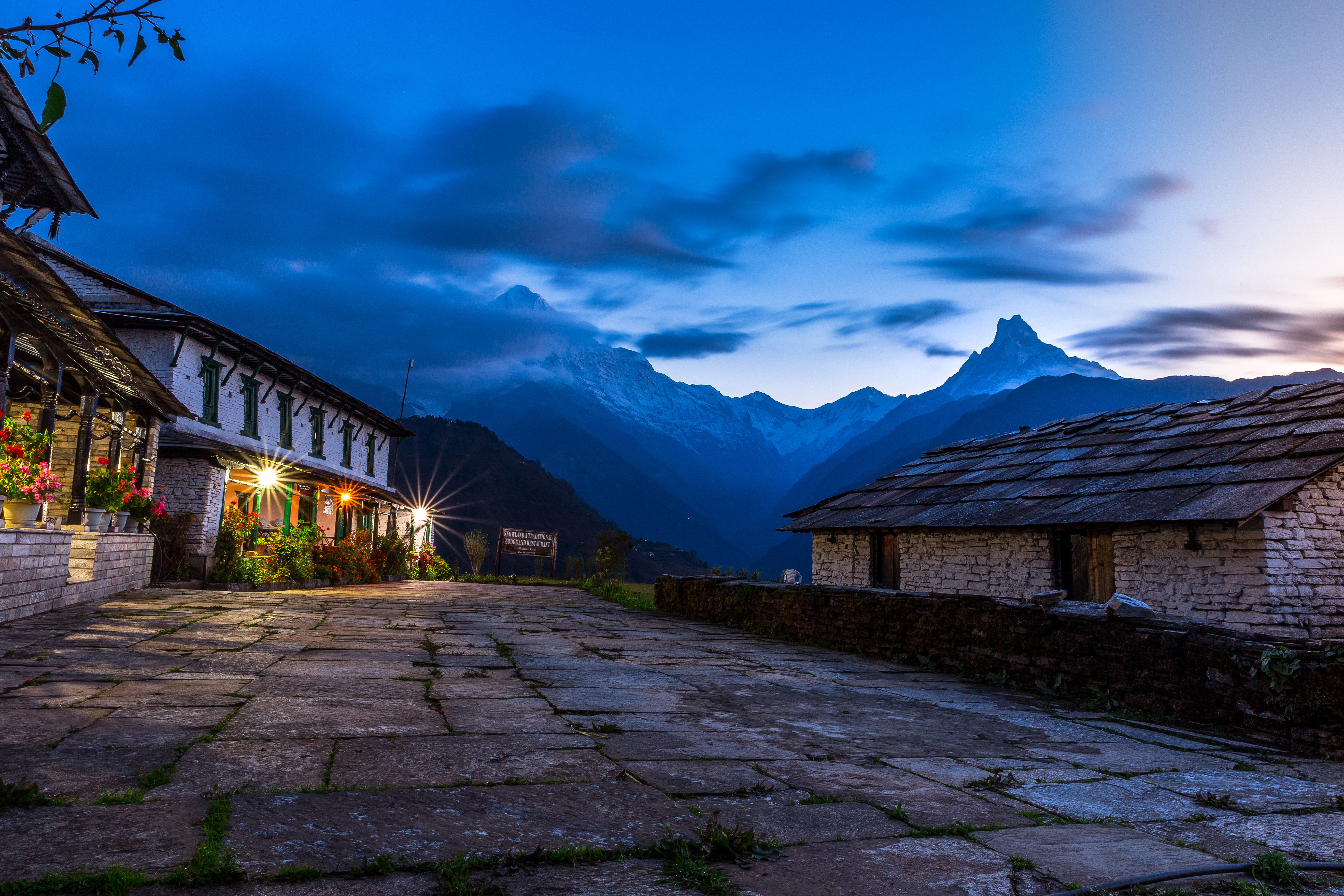 Beautiful view of Mt. Annapurna seen in morning form Ghandruk village.